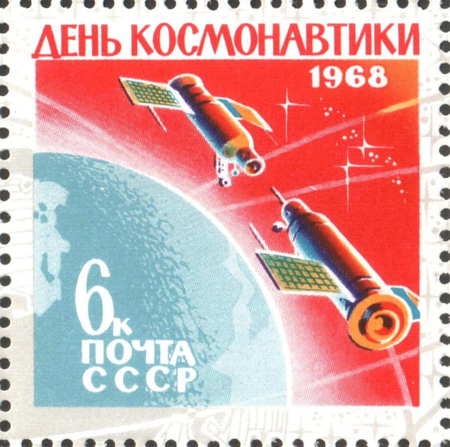 USSR stamp: Kosmos 186 and Kosmos 188 linking in Space. Series: National Cosmonautics Day